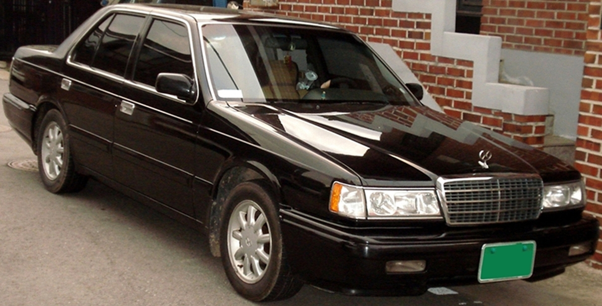 Kia Potentia